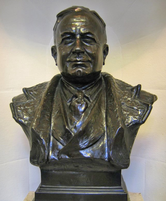 A bust of former Arsenal manager Herbert Chapman, which resides in the front hallway of offices at Emirates Stadium.